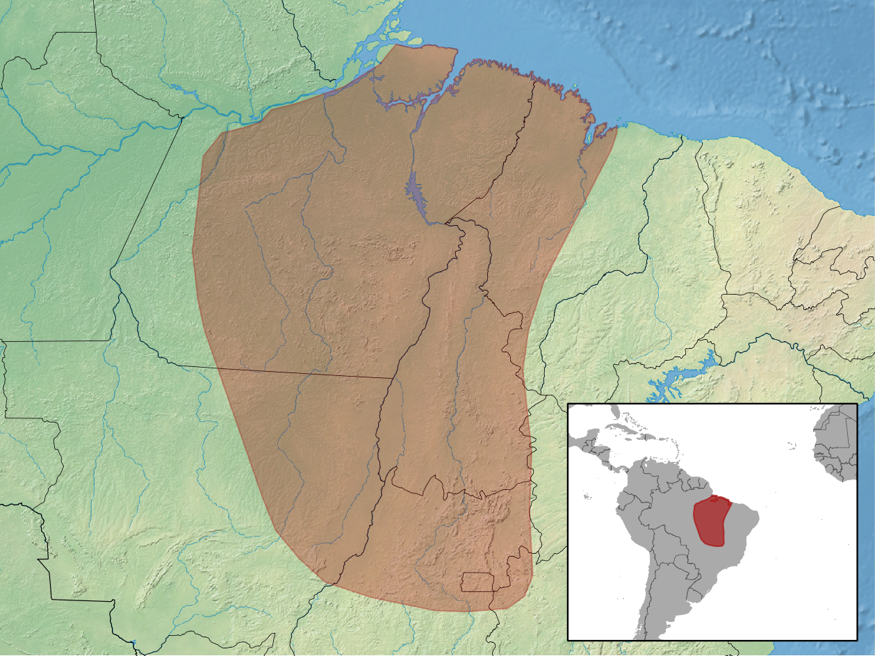 geographic distribution of Proechimys roberti